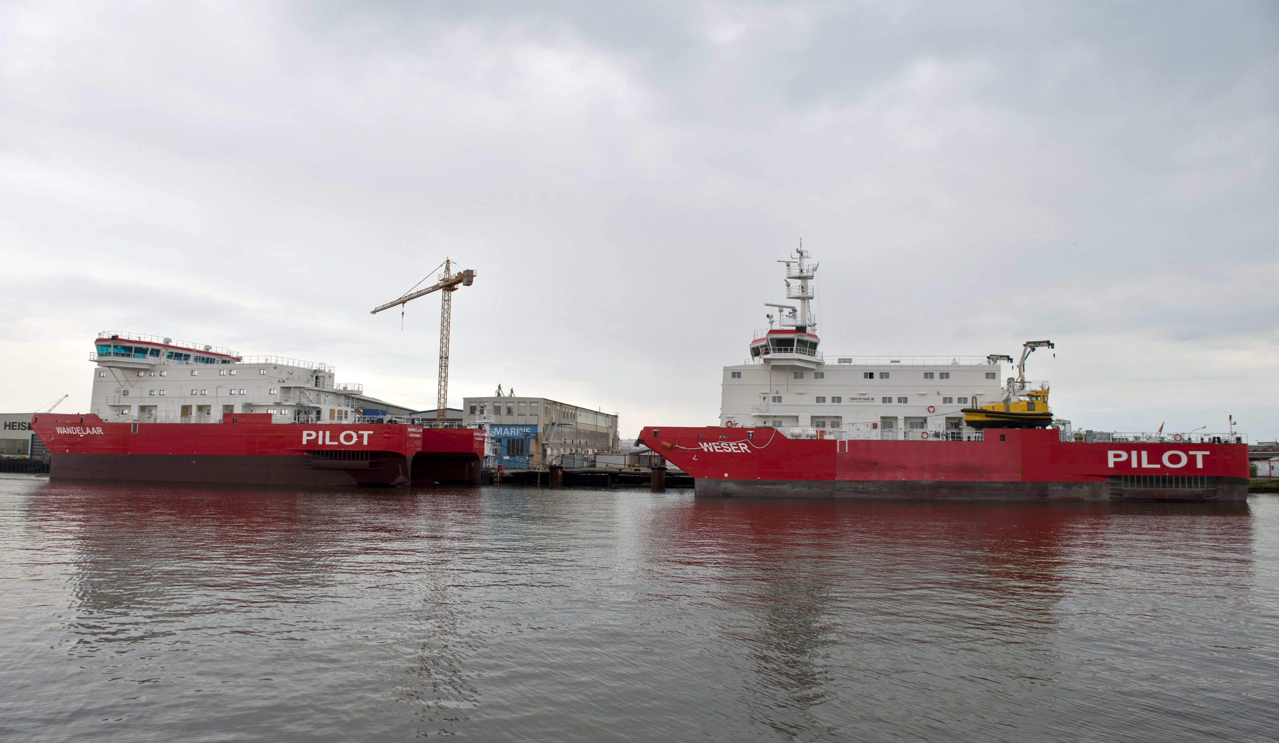 Pilot boats Hanse and Wandelaar in the fish harbour of Bremerhaven